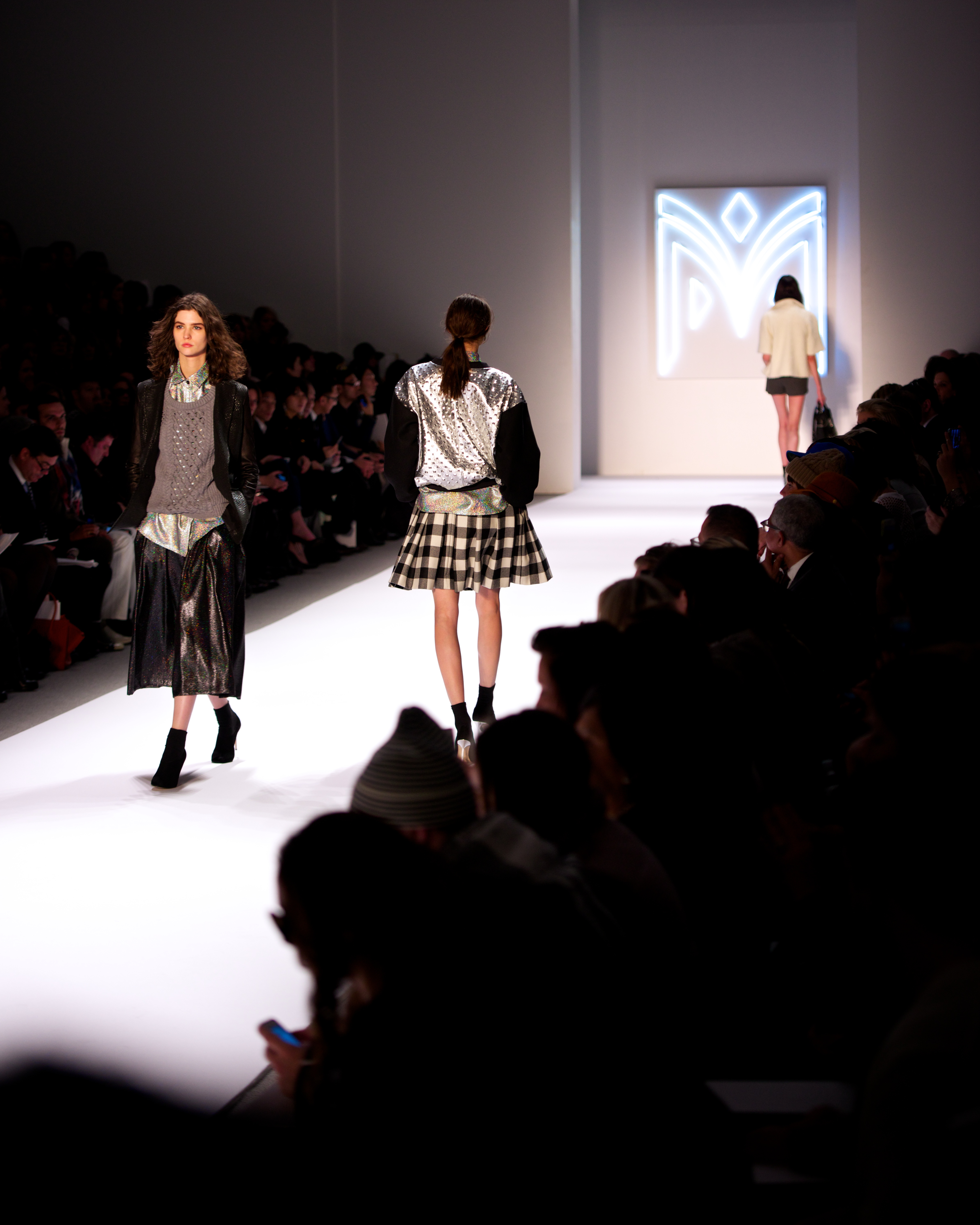 This photo represents how fast fashion harms fashion designers; designers ruminate for months on unique ideas, and fast fashion companies can easily replicate imitations.